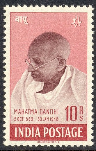 Mahatma Gandhi stamp of 10 rupees issued on 15th August 1948